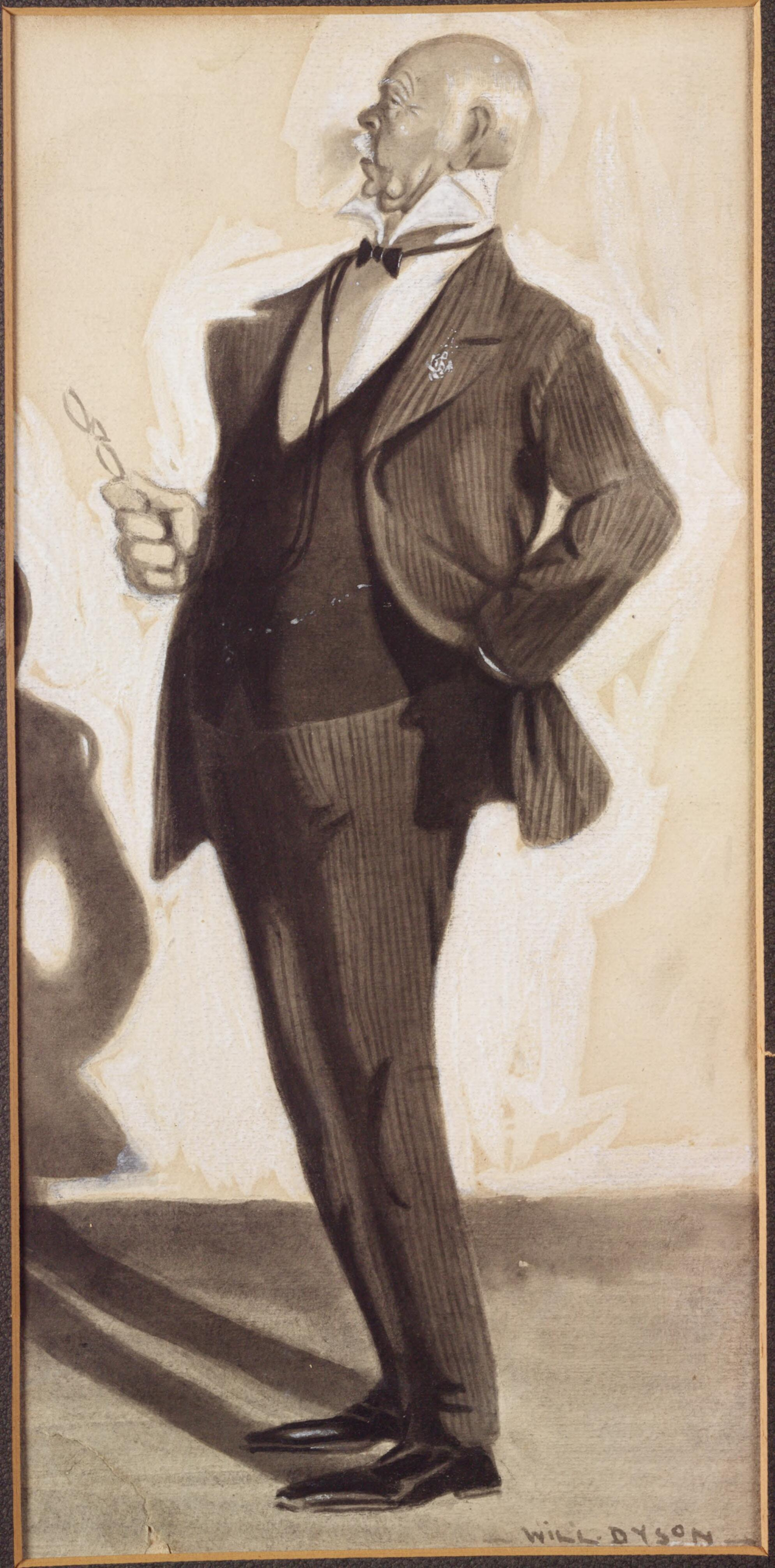 Caricature of Australian politician Josiah Symon